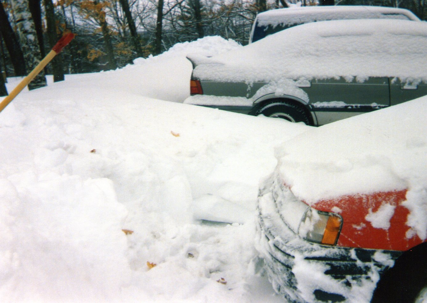 Image of a 1992 Toyota Tercel partially dug out after the Superstorm of 1993 at Fort Devens Massachusetts